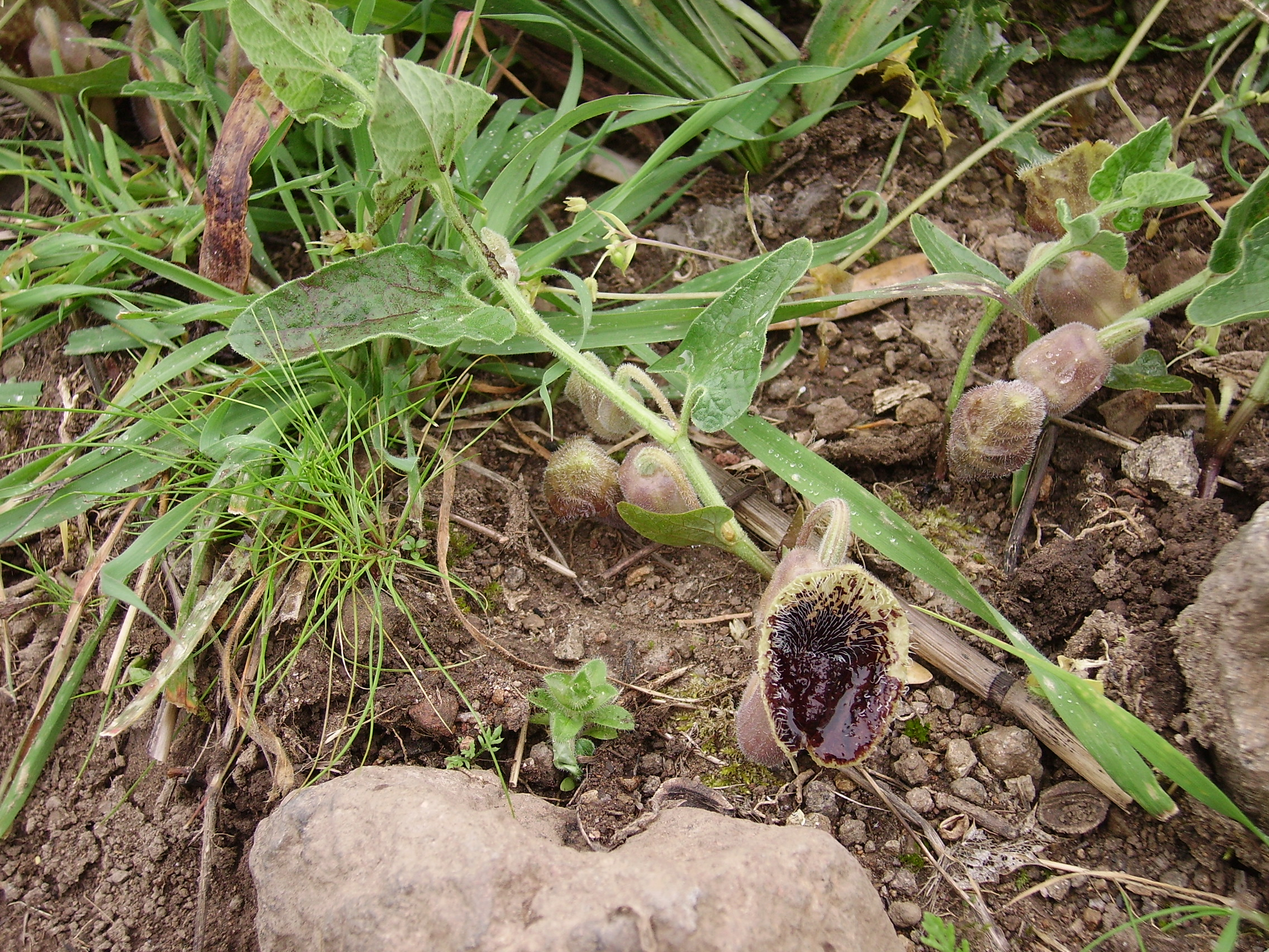 Aristolochia hirta (Aristolochiaceae) on Lesbos